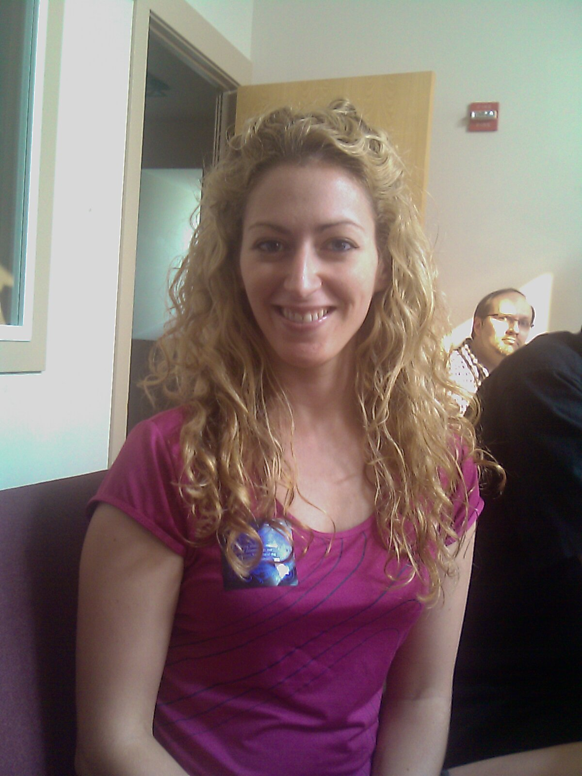 Jane McGonigal at Foo Camp in 2008.